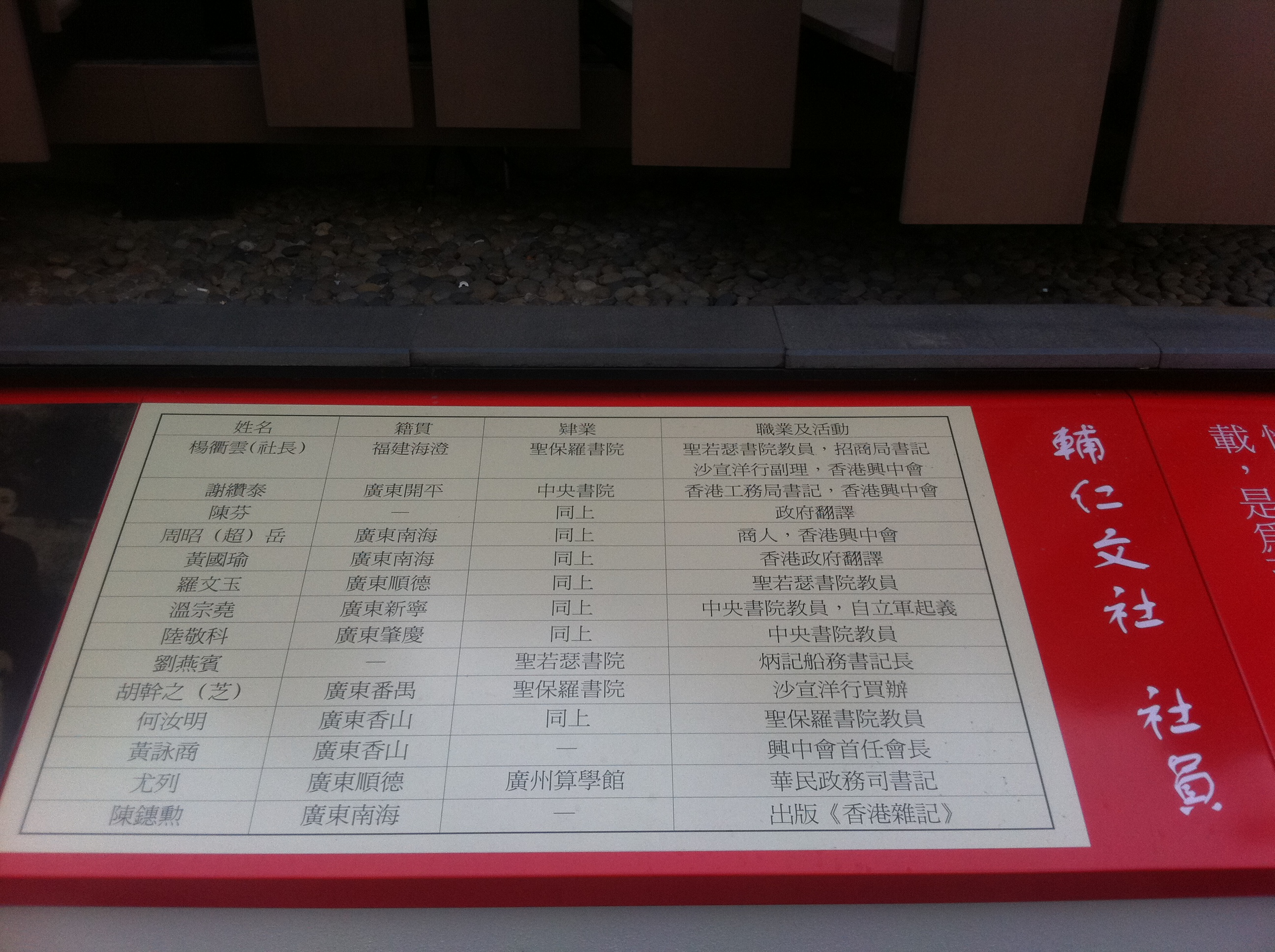 中文（香港）: 香港島 中環 百子里公園 輔仁文社, Furen Literary Society, Pak Tze Lane Park in Jan-2011